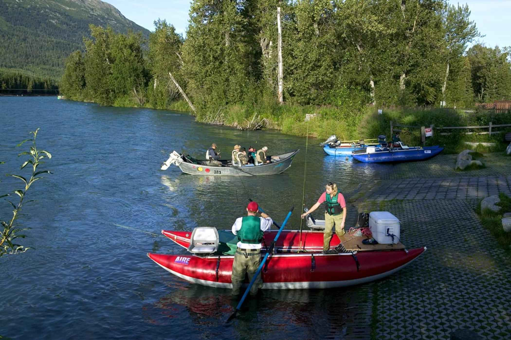 Image title: Recreational fishing on boats Image from Public domain images website